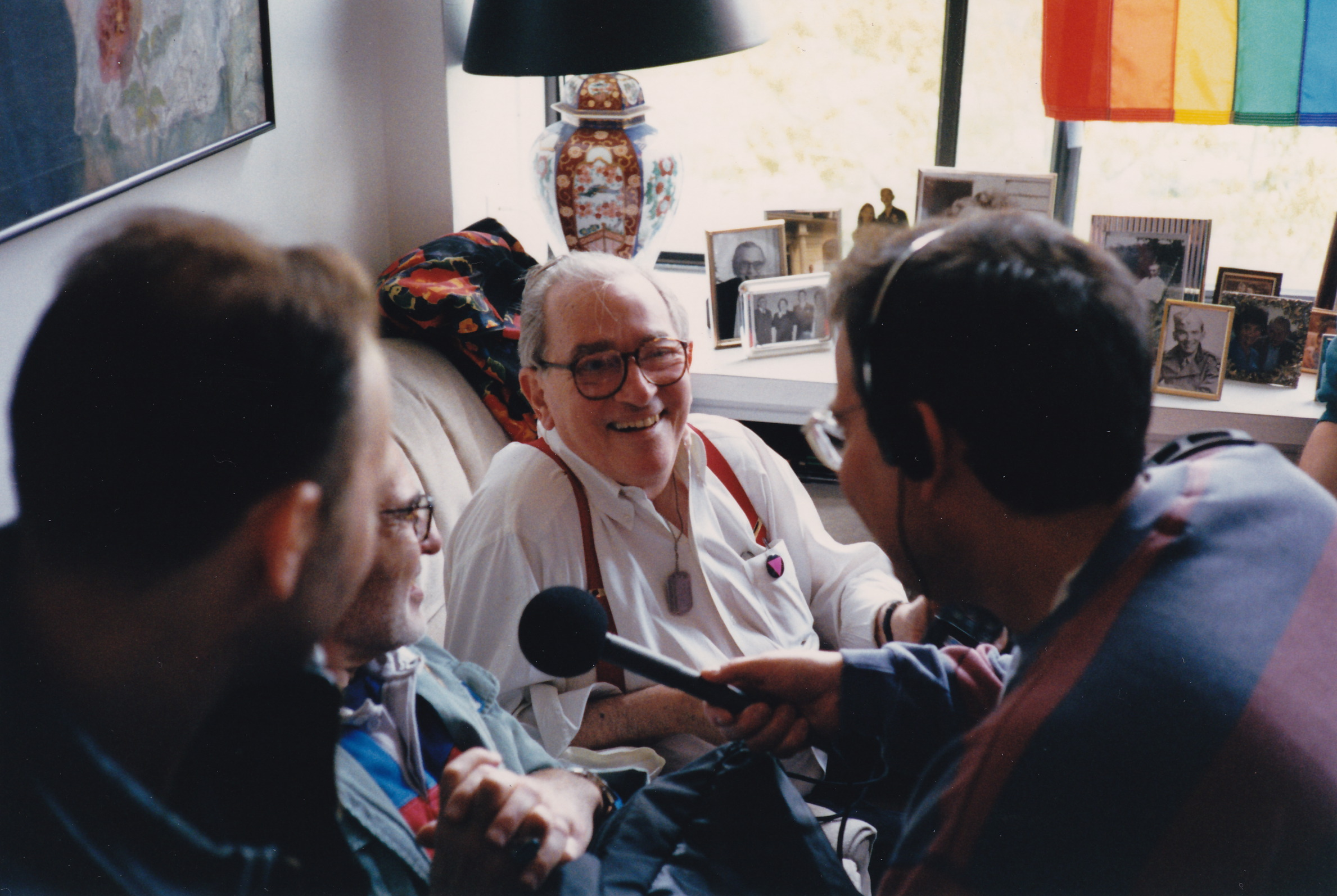 Marvin Liebman in his DC home during interview with Larry Kramer.